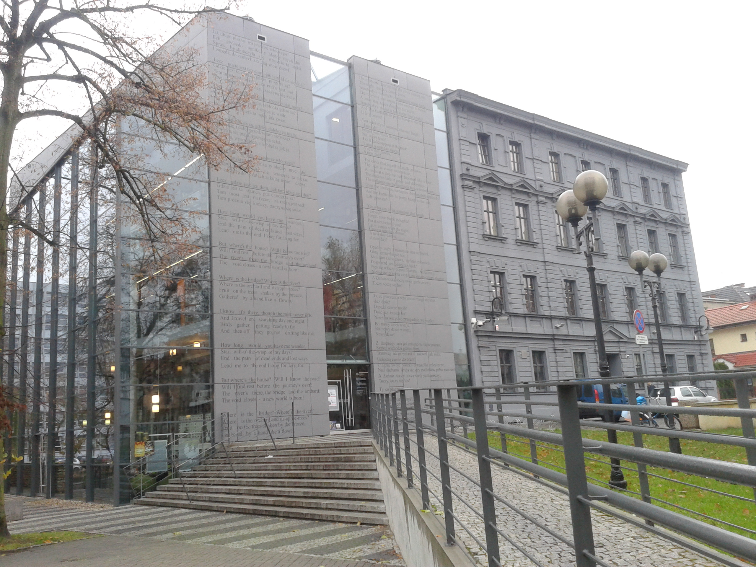 City Public Library in Opole.